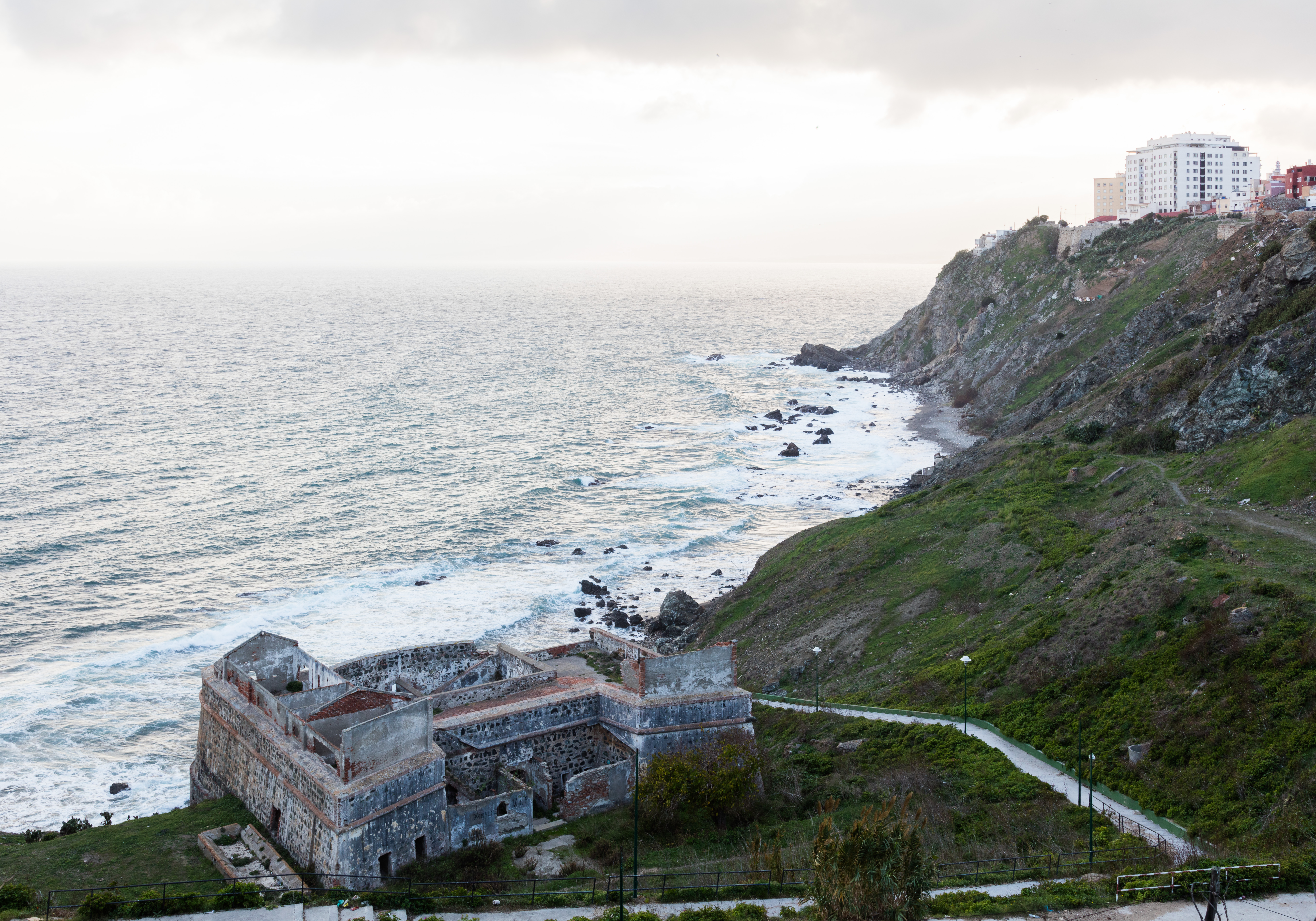 Fort of El Sarchal, Ceuta, Spain